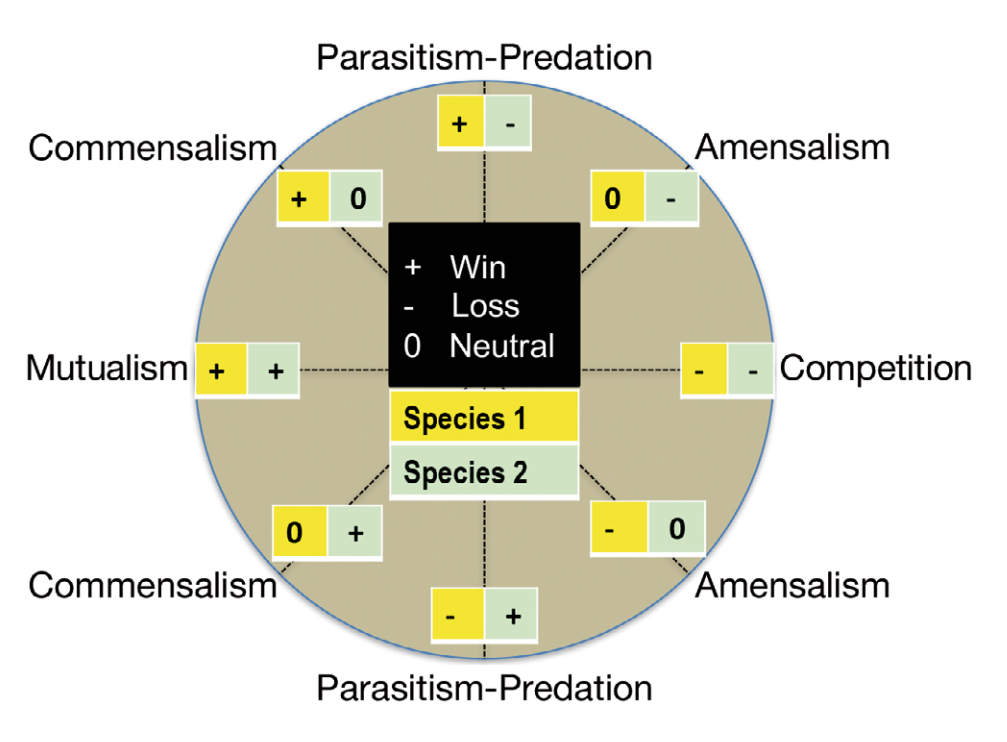 Possible ecological interactions between 2 individuals. The result of the interaction for each member of the pair can be positive, negative or neutral. For example, in predation, one partner obtains the benefits while the other assumes the costs. Based on Faust & Raes (2012). Faust K and Raes J (2012) "Microbial interactions: From networks to models". Nat Rev Microbiol, 10: 538–550.